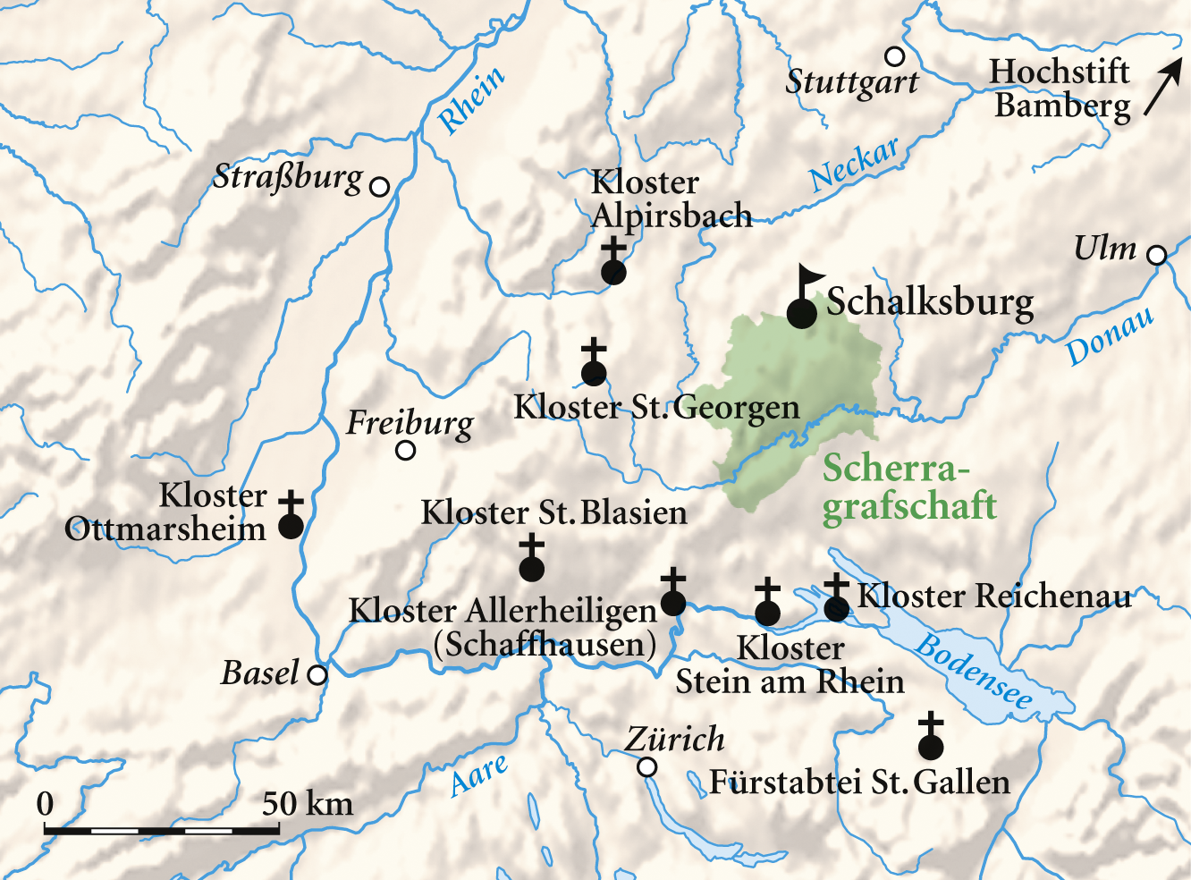 Monasteries with property in the Scherra County